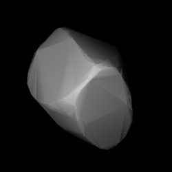 3D convex shape model of 5357 Sekiguchi, computed using light curve inversion techniques. J. Hanuš, J. Ďurech, M. Brož, B. D. Warner (June 2011). "A study of asteroid pole-latitude distribution based on an extended set of shape models derived by the lightcurve inversion method". Astronomy and Astrophysics 530: A134. ISSN 0004-6361. arXiv